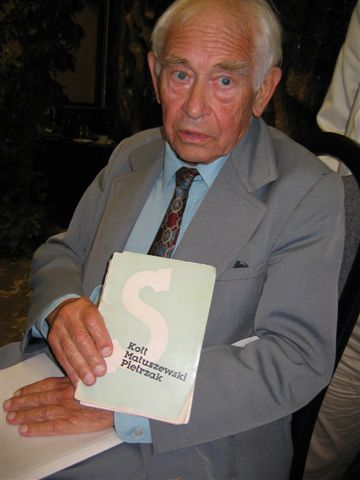 Ryszard Matuszewski (b. August 18, 1914 in Warsaw, Poland, d. April 29, 2010 in Warsaw, Poland) - Polish literary critic, writer, essayist and publicist. He lived in Warsaw, Poland